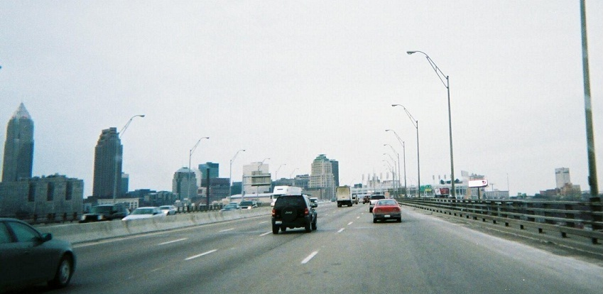 Innerbelt Bridge, Cleveland, Ohio, from the roadway